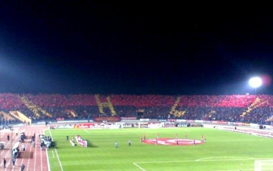 Image:Min zamalek2.jpg Ultras Ahlawy card stunt against Zamalek in 2007/2008. Karim Abdoun, myself, , a tribute to the club by fans